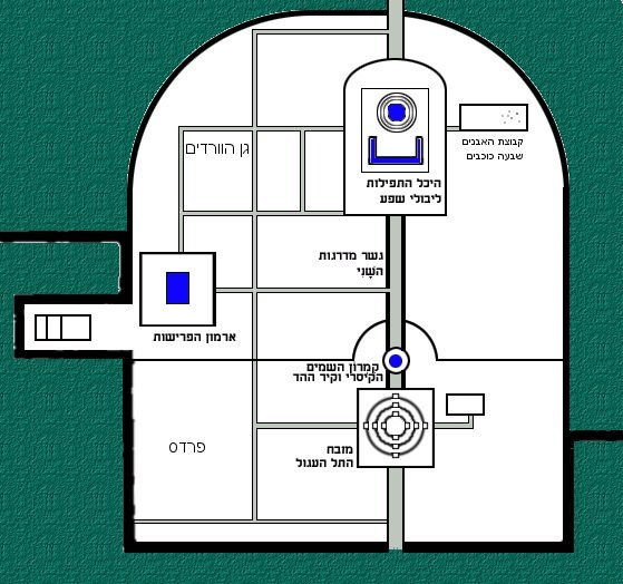 Temple of Heaven HEB Map of the Temple of Heaven [1]